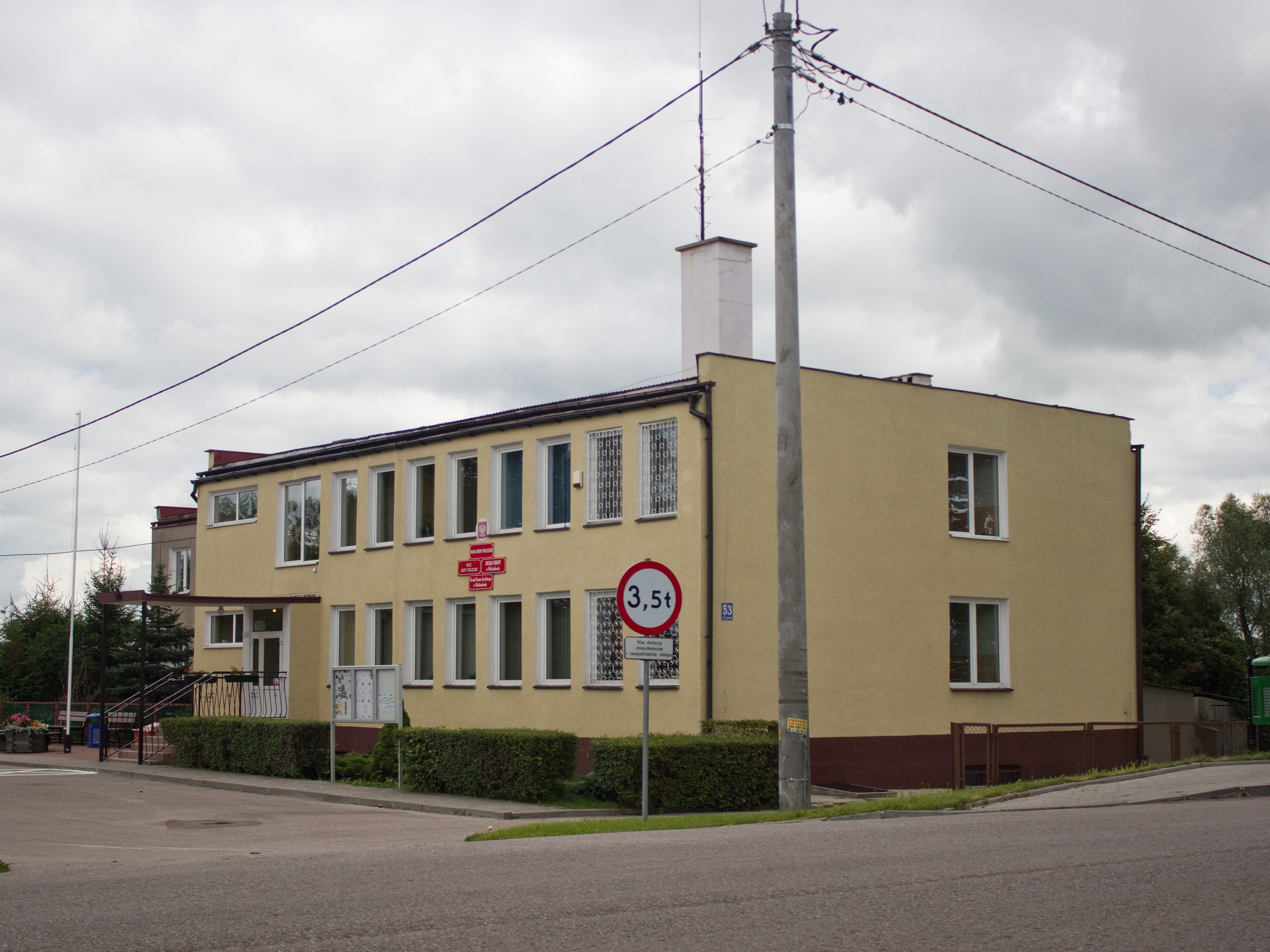 Wieliczki, gmina Wieliczki, powiat olecki, Warmian-Masurian Voivodeship